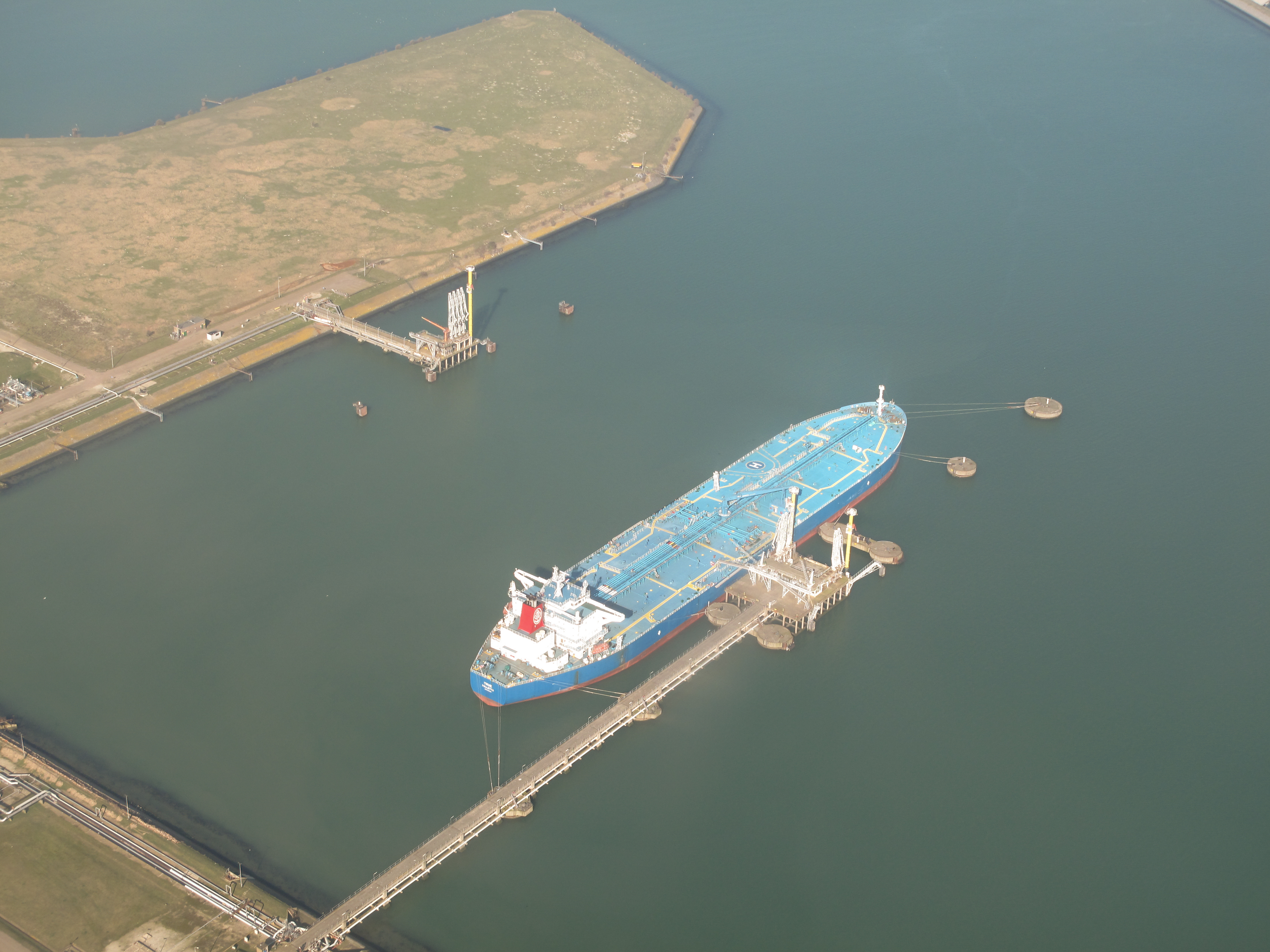 Europoort, port: Vierde Petroleumhaven